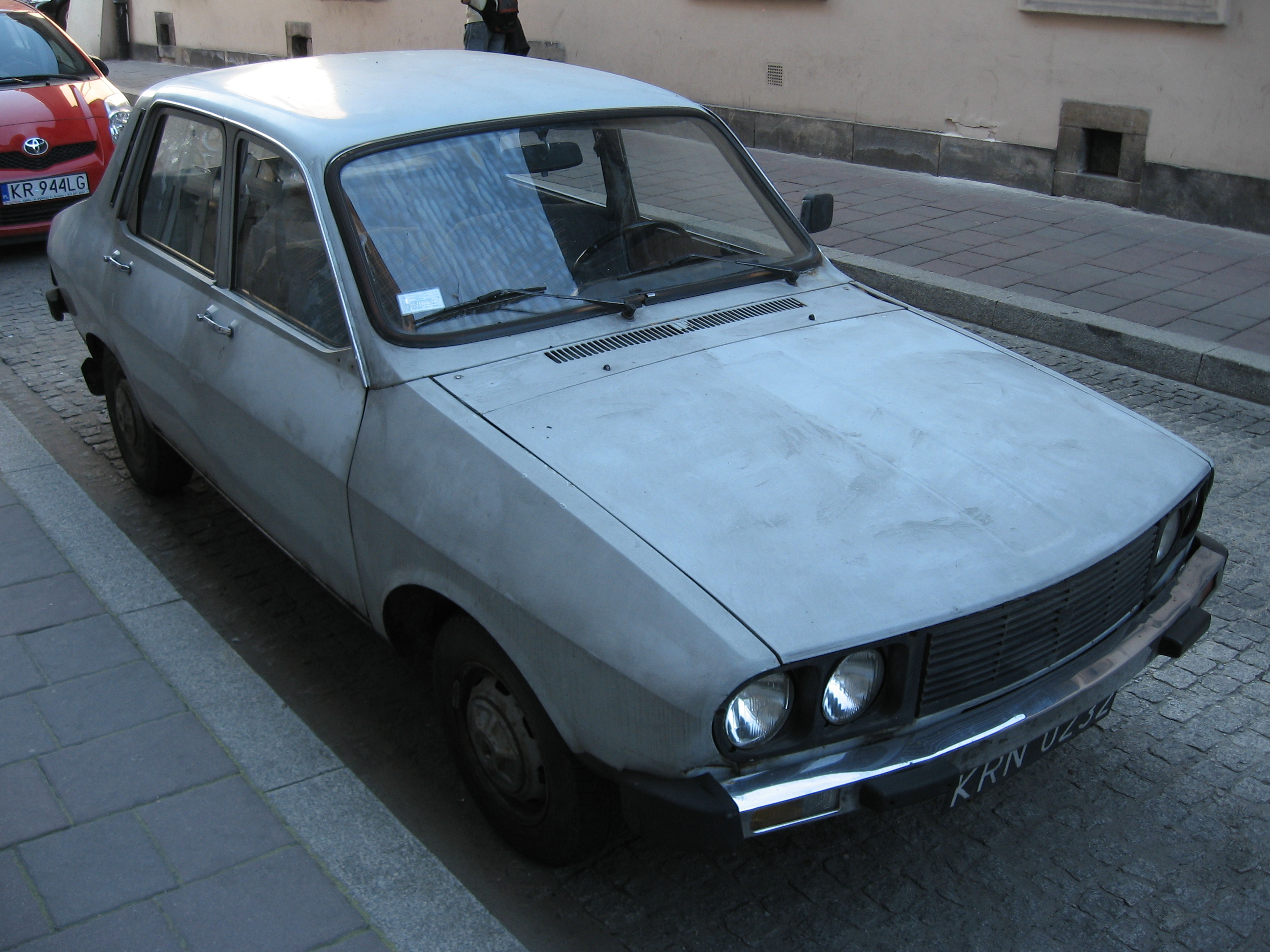 Grey Dacia on Świętego Marka street in Kraków.